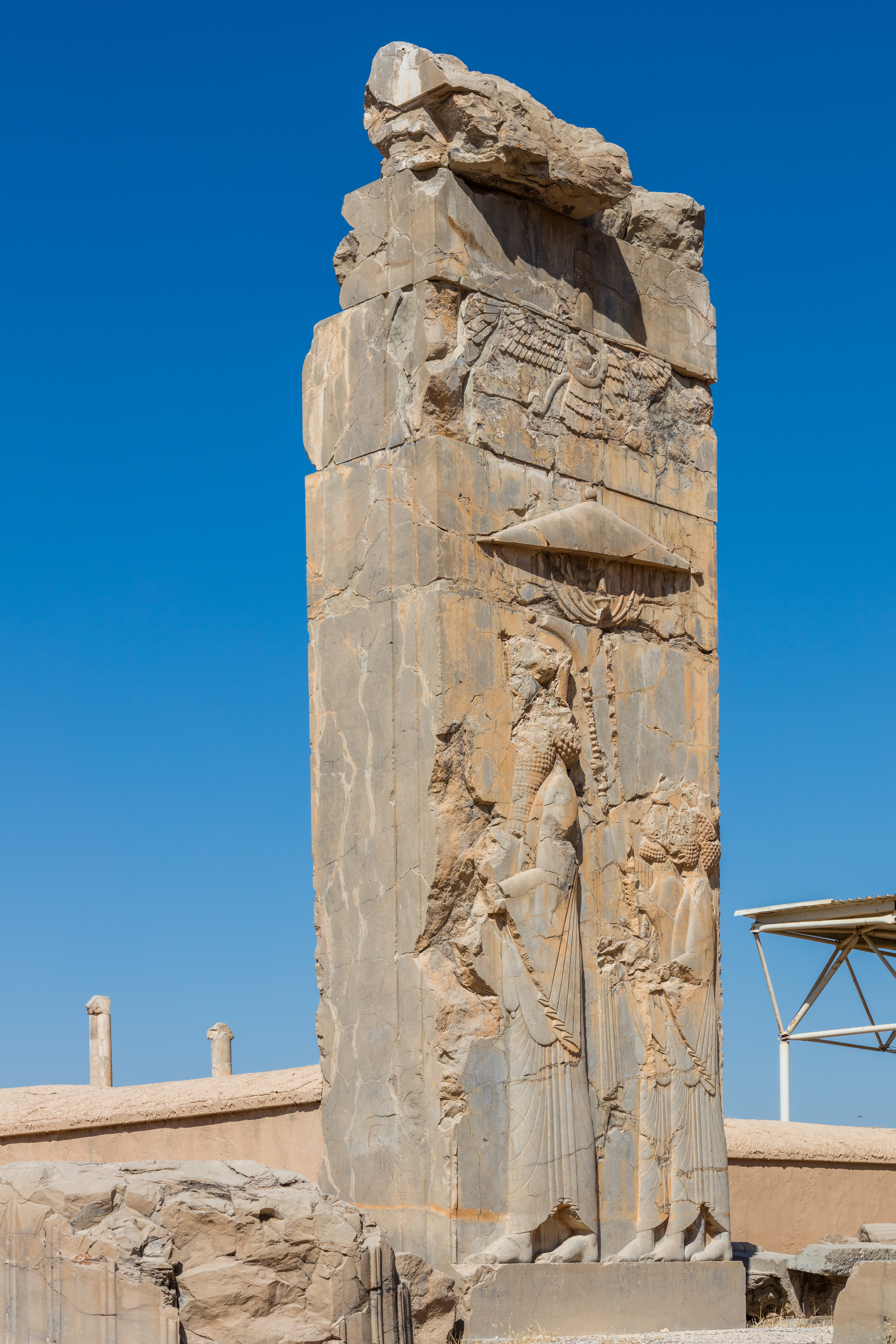 Persepolis, Iran